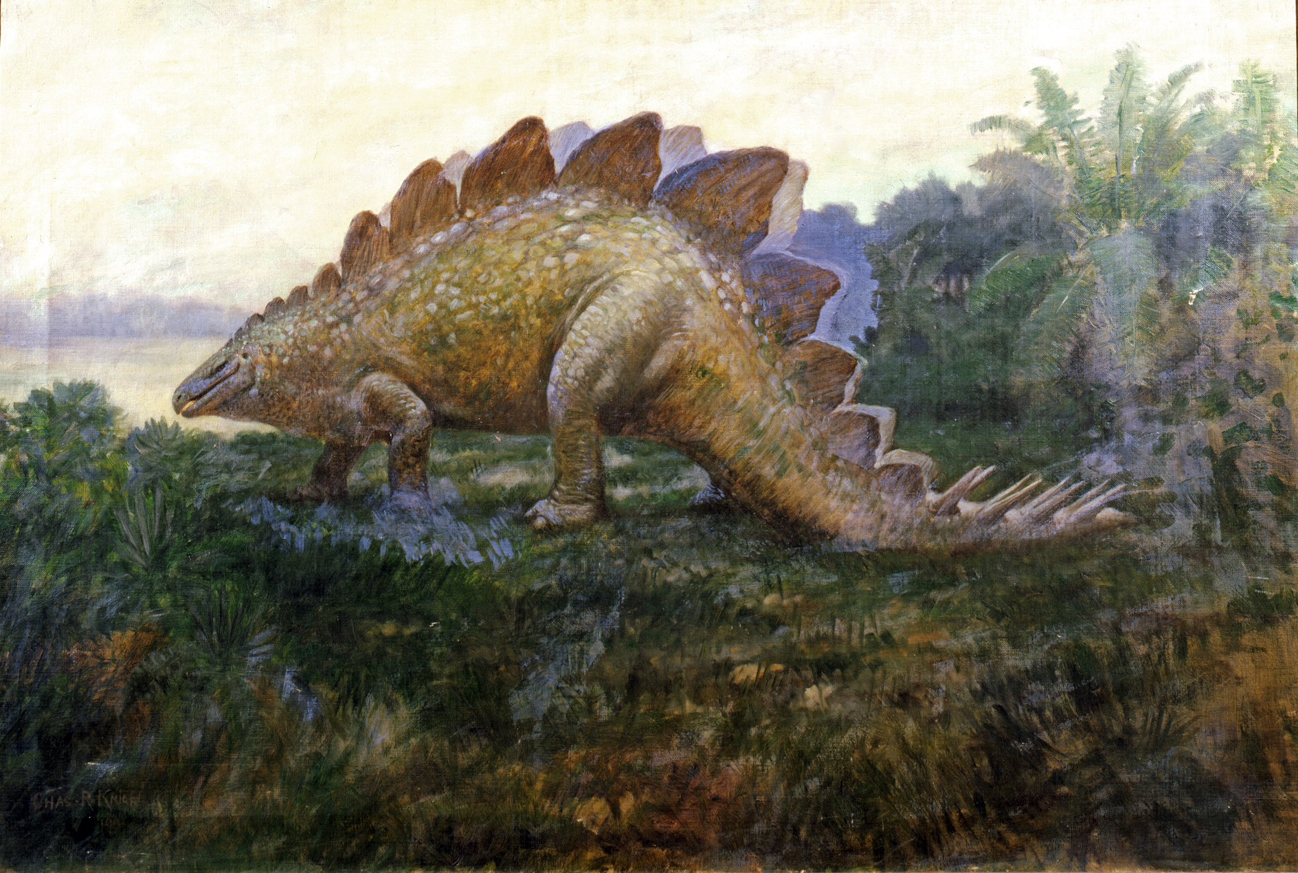 Life restoration of Stegosaurus ungulatus Marsh. By Charles R. Knight, 1901. After F.A. Lucas.